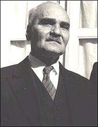 Sayyed Hasan Taqizadeh (1878-1970), Iranian politician and diplomat.